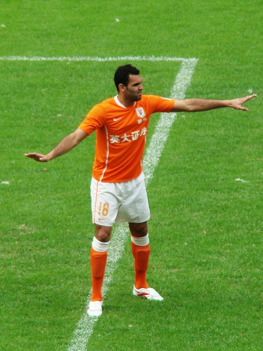 Shandong Luneng midfielder Roda Antar in Yuexiushan Stadium